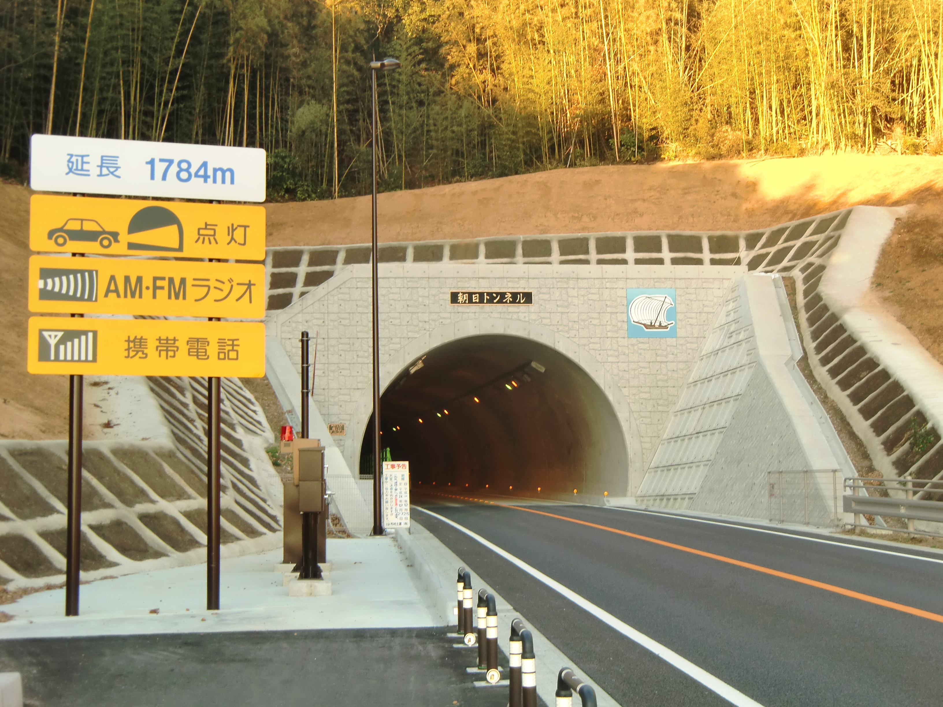 Asahi Tunnel in Ono, Tsuchiura city, Ibaraki prefecture, Japan.